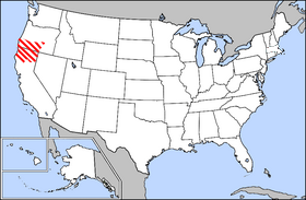 Map of the USA highlighting the proposed [State of Jefferson|State of Jefferson].